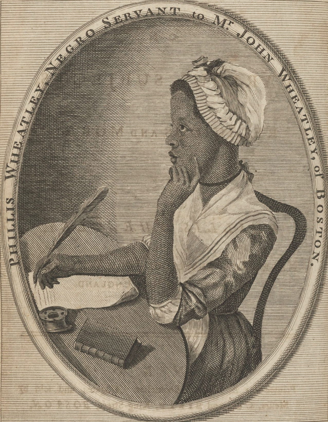 Frontispiece (cropped): Poems on various subjects, religious and moral, London: 1773, by Phillis Wheatley (d. 1784). Image depicts the author; artist unidentified. *AC85.Aℓ245.Zy773w, Houghton Library, Harvard University